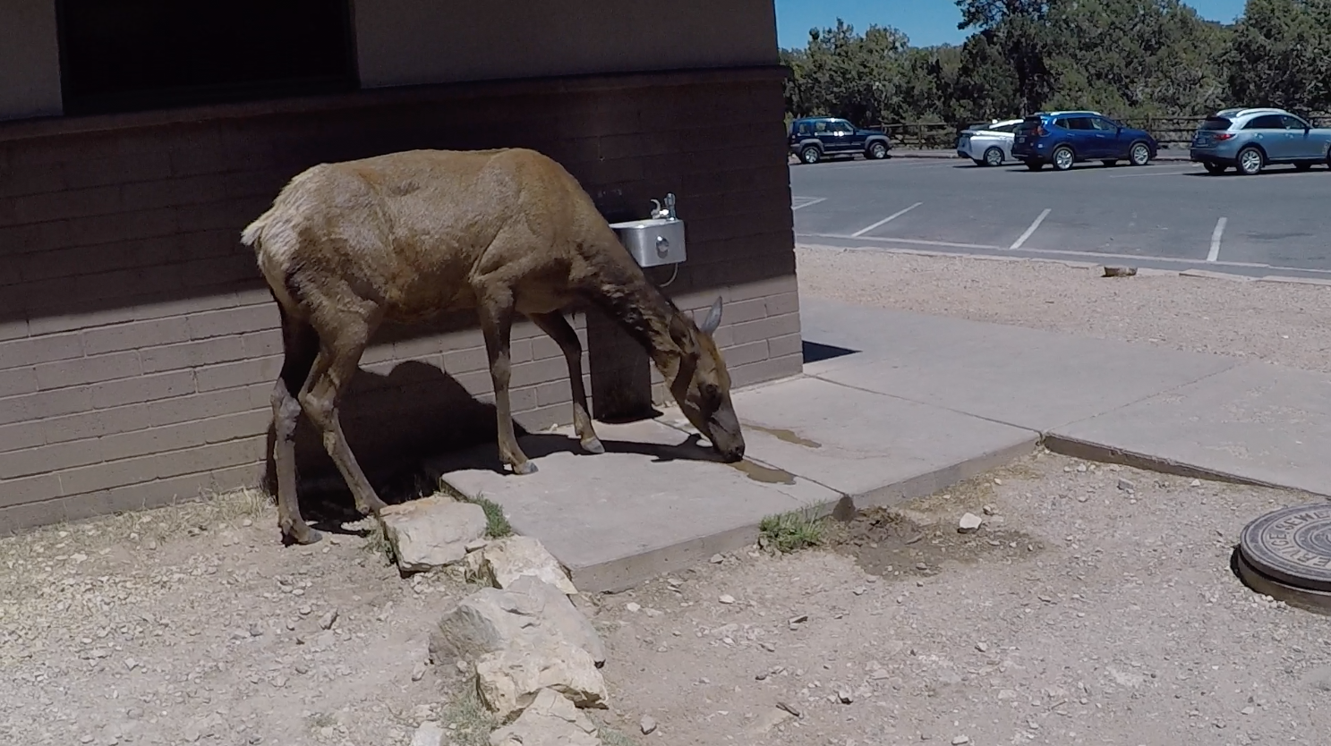 An elk licking residual water from a fountain at Grand Canyon National Park during summer heat in 2018